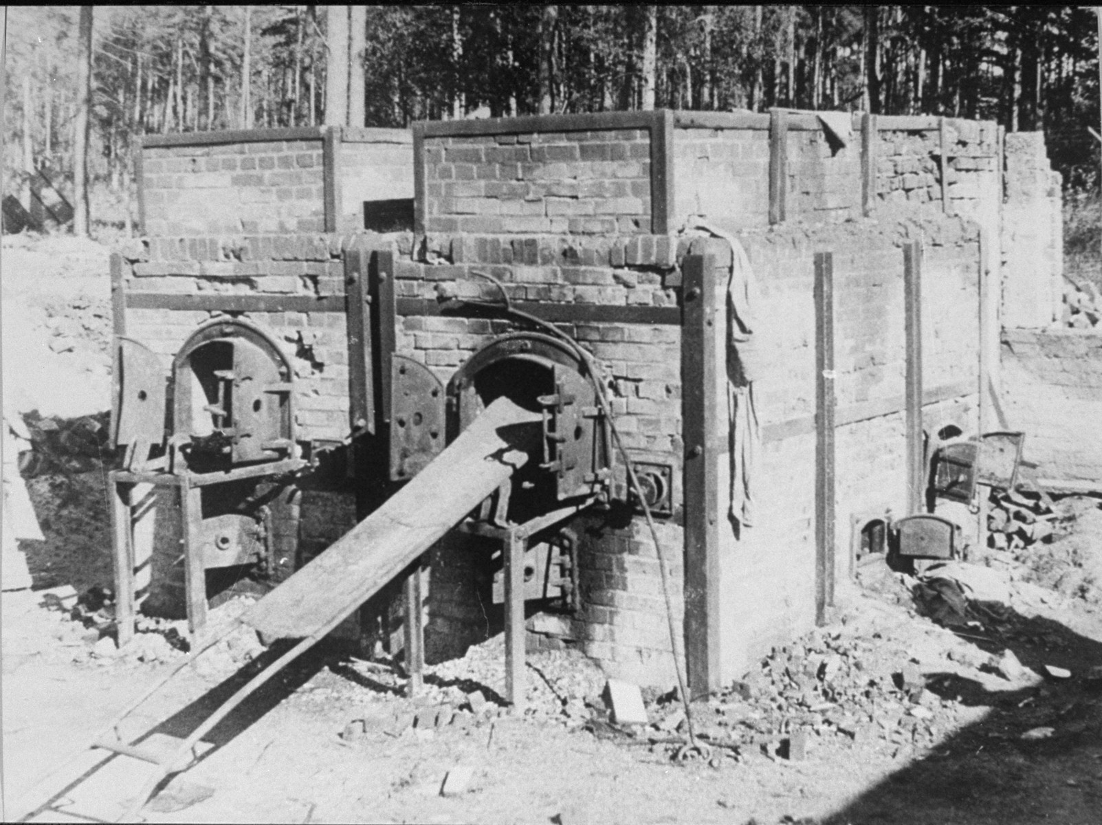 See title